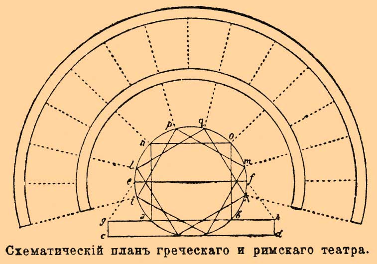 Illustration from Brockhaus and Efron Encyclopedic Dictionary(1890—1907)